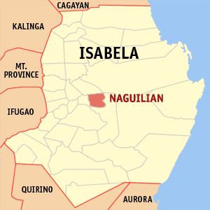 Map of Isabela showing the location of Naguilian